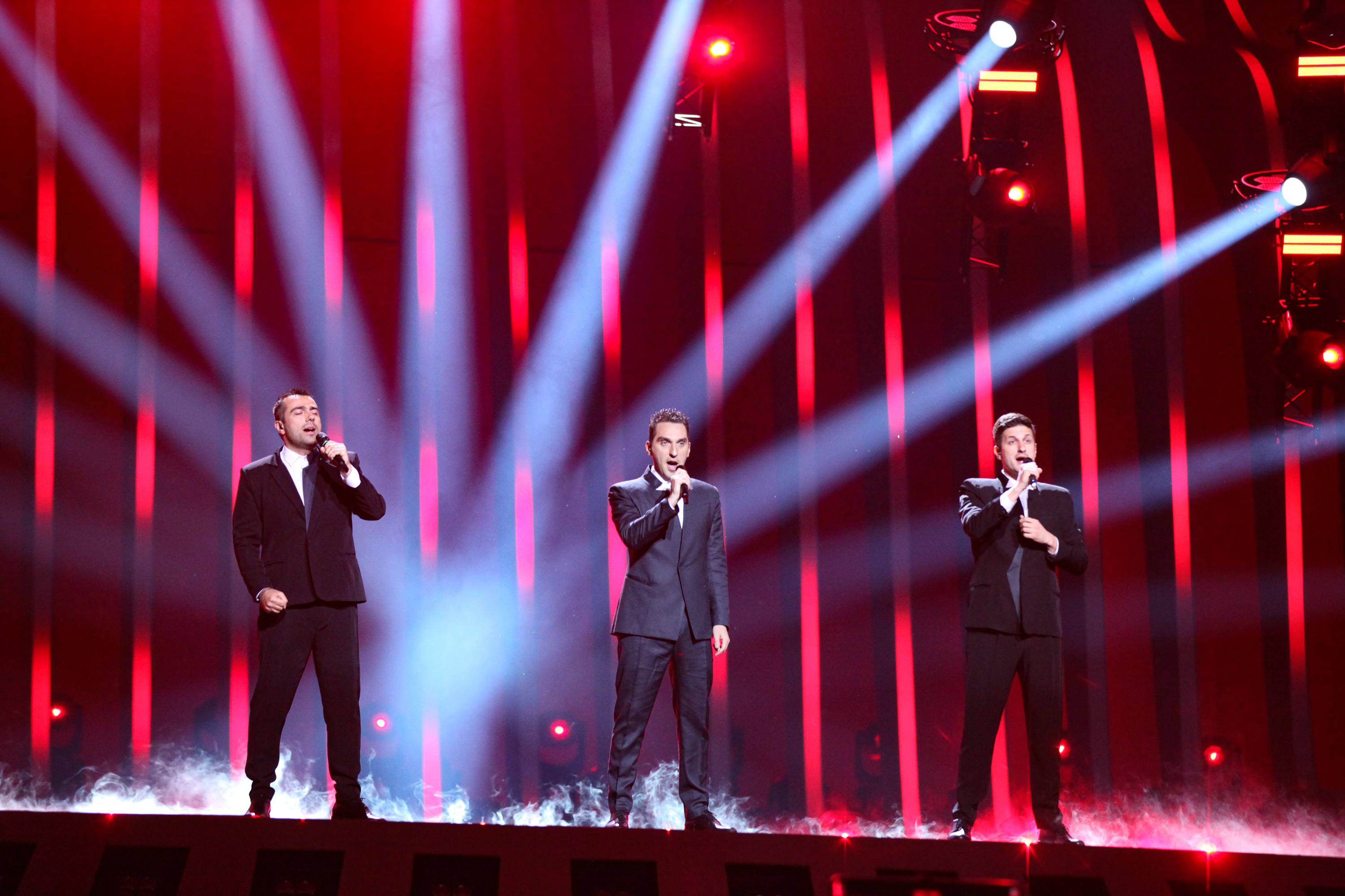 Ethno-Jazz Band Iriao representing Georgia with the song "For You" during a rehearsal before the second semi final of the Eurovision Song Contest 2018 in Lisbon.